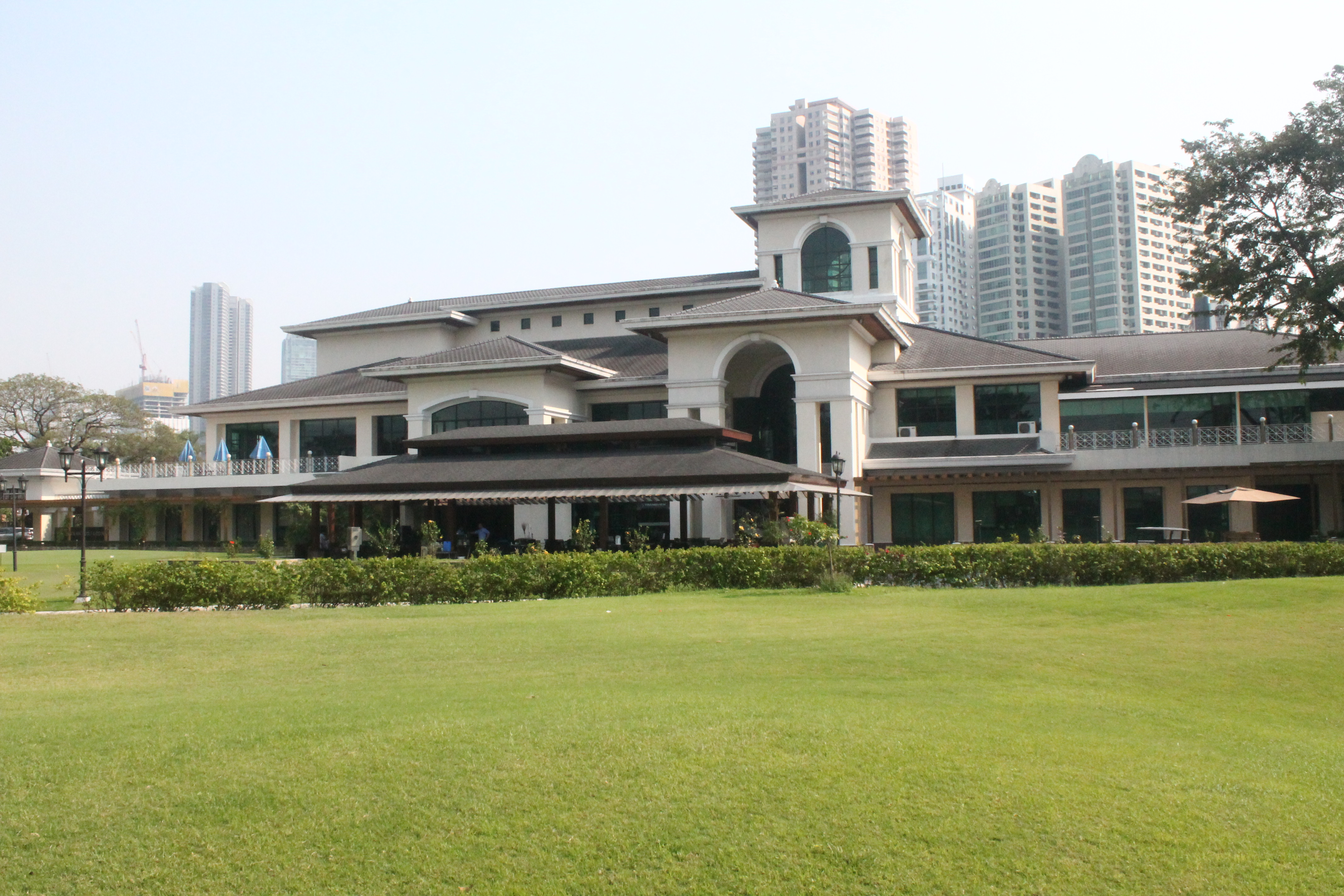 Clubhouse of Wack Wack Golf and Country club facing the fairways